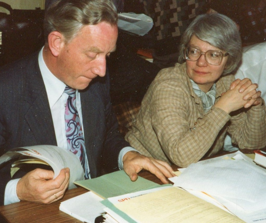 politicians Hans-Ulrich Seeler and wife Ingrid